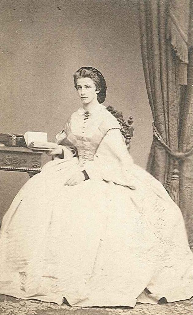 Duchess Mathilde Trani nee Duchess in Bavaria (1843-1925)